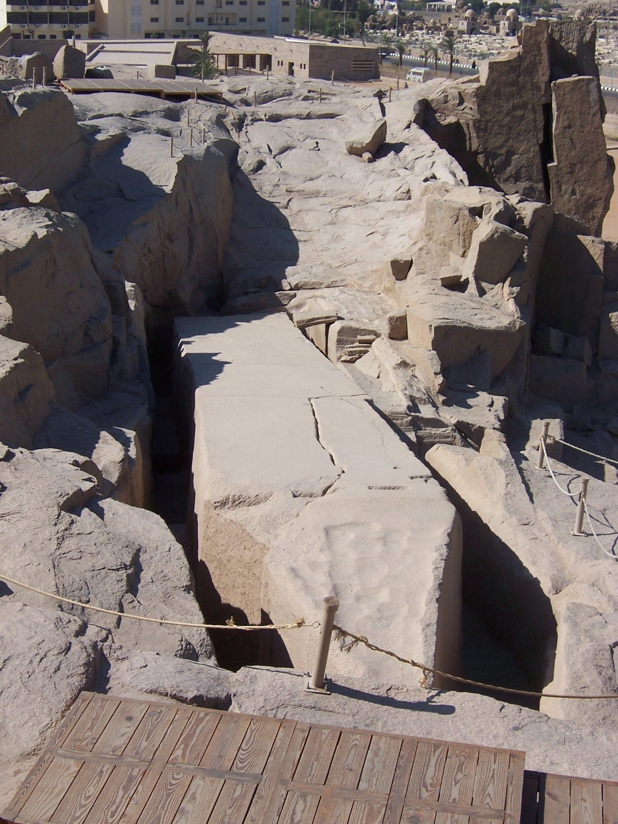 Pictures from Aswan, Egypt